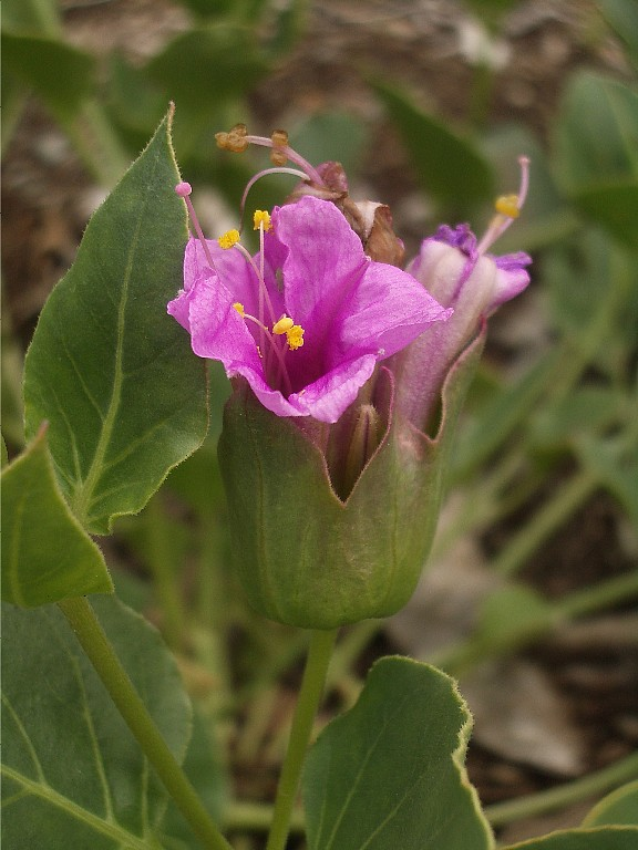 Mirabilis multiflora var. pubescens [Family: Nyctaginaceae] Colorado Four O'Clock (or Destert Four O'Clock) is found from Southern California to southern Colorado. This plant is at Rancho Santa Ana Botanic Garden.